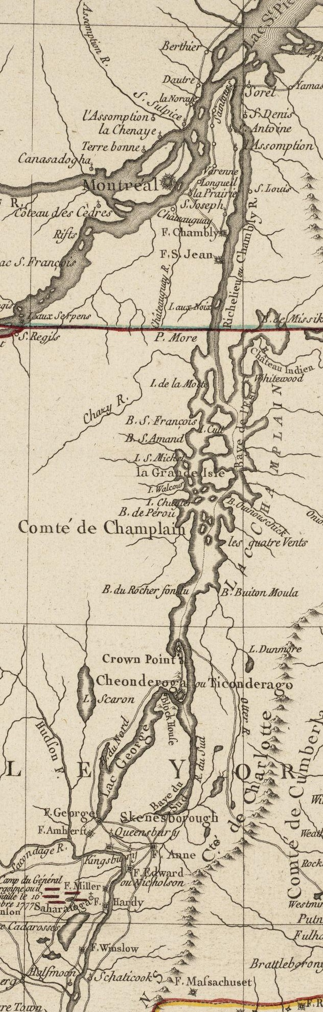 This is a detail from the source map, depicting only the Upper Hudson River Valley and the Champlain Valley as far as Montreal.